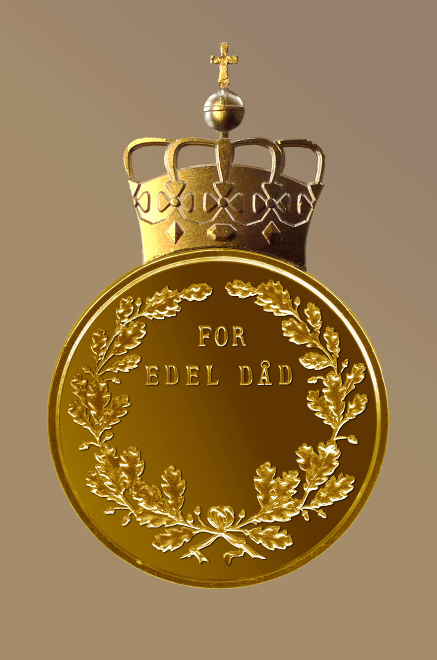 Reverse of the Norwegian medal for heroic deeds (=Medaljen for edel dåd), as it looks under King Harald V